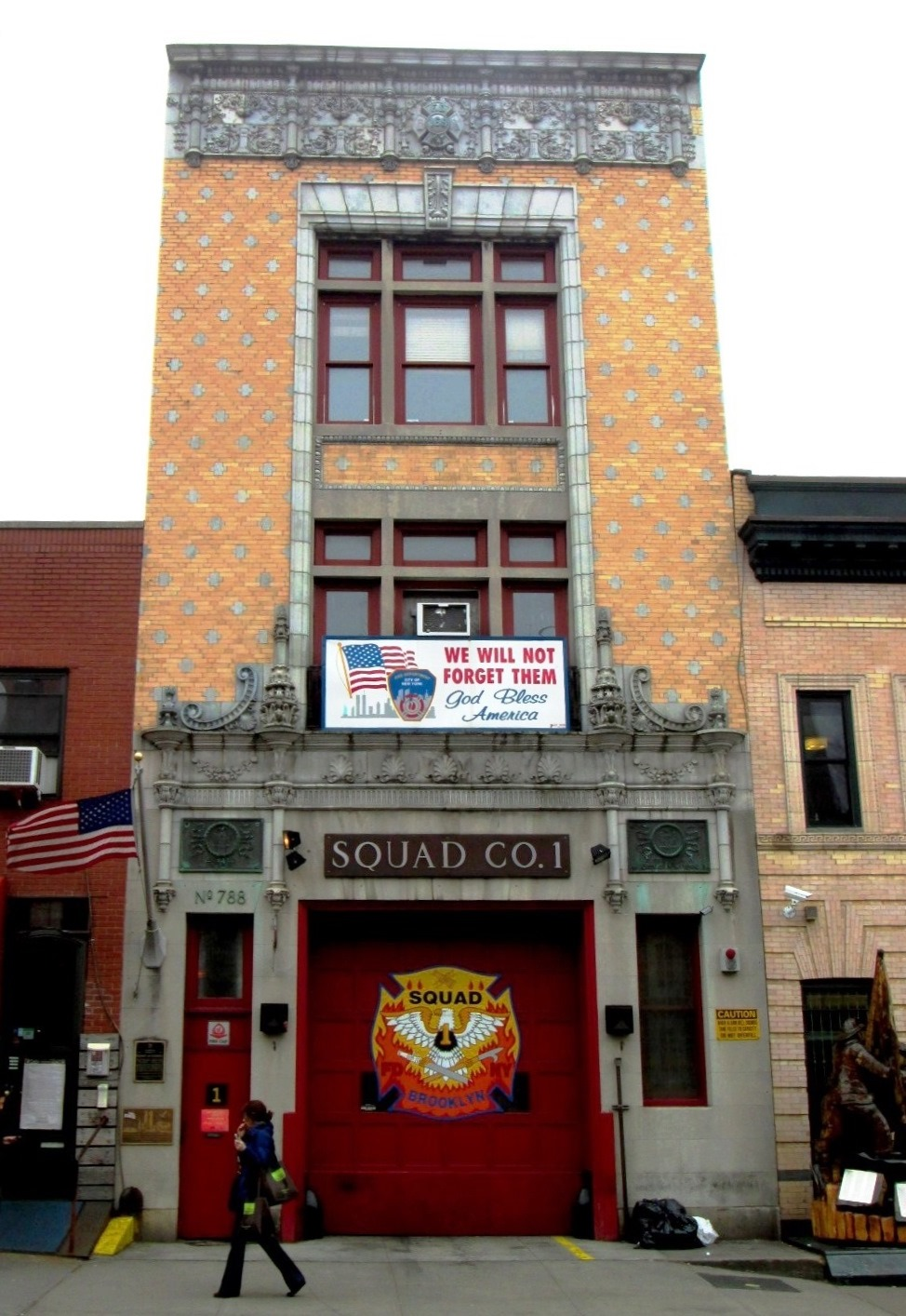 The New York City Fire Department Squad Company 1 firehouse at 788 Union Street between 6th and 7th Avenues in the Park Slope neighborhood of Brooklyn, New York City was formerly the station for Engine Company 269. Squad Company 1 was founded in 1955 and was located in various stations around the city before it was disbanded in 1976. Engine Company 269 had been closed during a budget crisis, but community pressure caused the city to re-open the firehouse in 1977 as the location of a newly re-established Squad Company 1. The building dates from 1900.